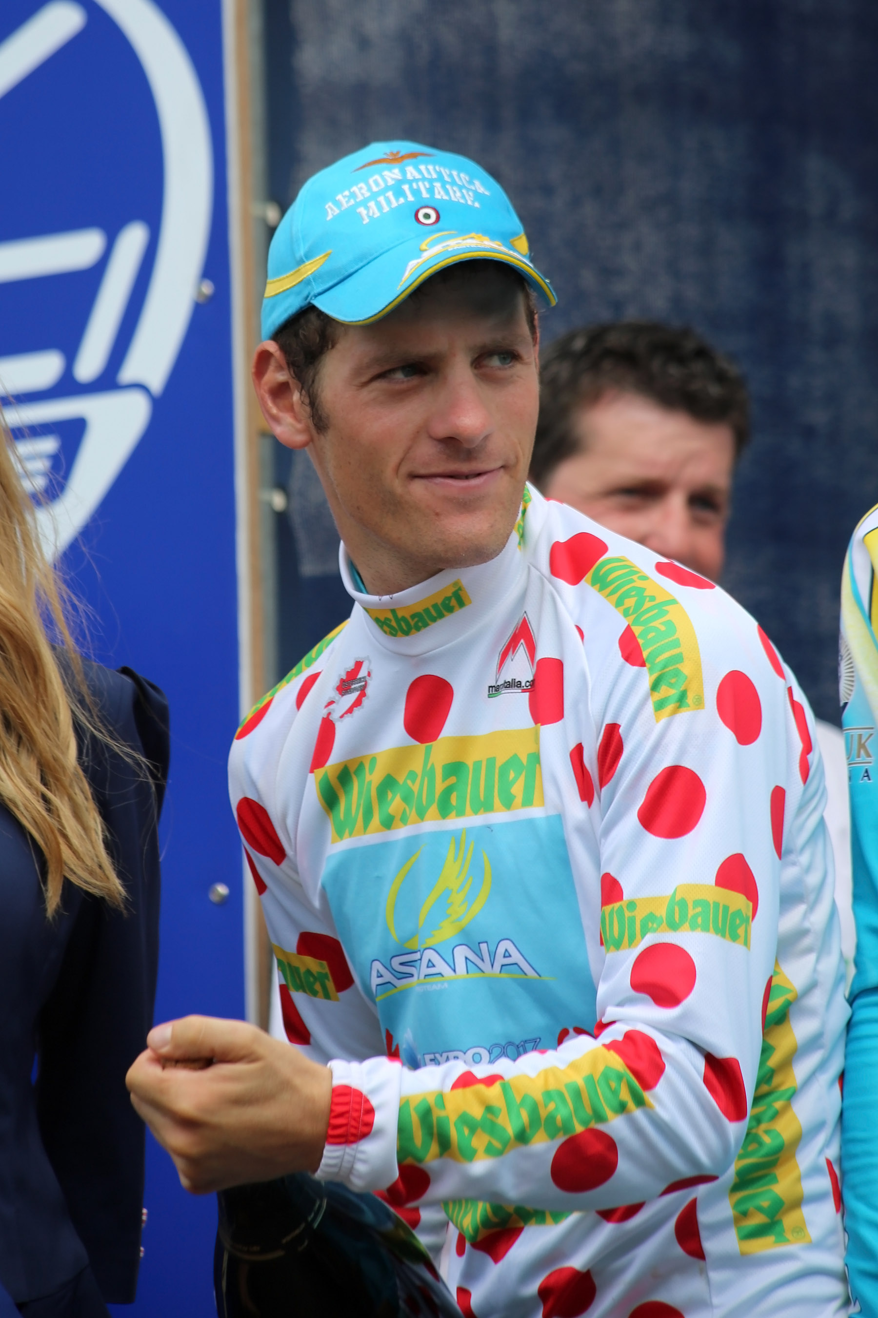 Kevin Seeldraeyers at the award ceremony of the Tour of Austria in Vienna, Austria.